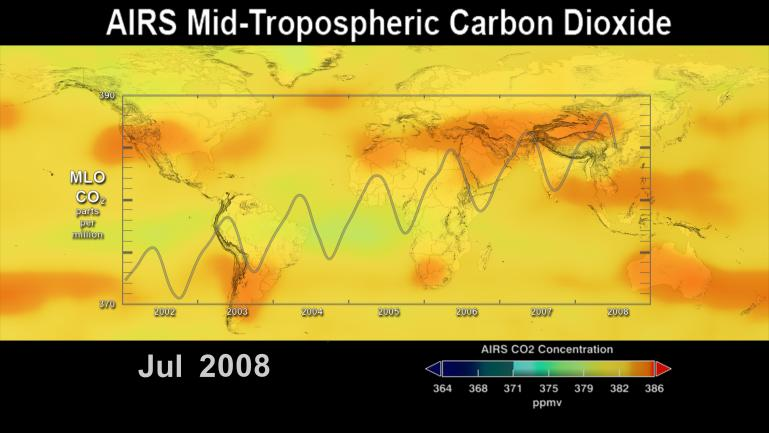 This image shows the distribution and amount of carbon dioxide in Earth's mid-troposphere in July 2008 as measured by NASA's Atmospheric Infrared Sounder (AIRS) instrument. The overlying graph is the seasonal variation and interannual increase of atmospheric carbon dioxide recorded at the Mauna Loa Observatory in Hawaii. The AIRS data reveal the average concentration (parts per million) over an altitude range of 3-13 kilometers (1.8 to 8 miles), whereas the Mauna Loa data show the concentration of carbon dioxide at an altitude of 3.4 kilometers (2.1 miles) and its annual increase at a rate of approximately 2 parts per million (ppmv) per year. This image is the final frame of a visualization showing the time-series of AIRS's measurements of mid-tropospheric carbon dioxide from 2002 to 2008. The 30-second visualization is available at and The AIRS instrument flies on NASA's Aqua satellite and is managed by the Jet Propulsion Laboratory, Pasadena, California, under contract to NASA.